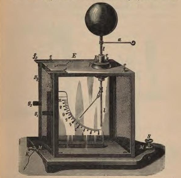 Drawing of a Kolbe electrometer, a precision type of gold-leaf electroscope. It has a light aluminum vane suspended next to a vertical metal plate (l). When an electric charge is applied to the electrode on the top of the instrument it flows down the vertical post, into the vane and plate. Since they have the same charge, the vane is repelled and hangs at an angle. From the angle read off the quadrant scale, the charge can be calculated.